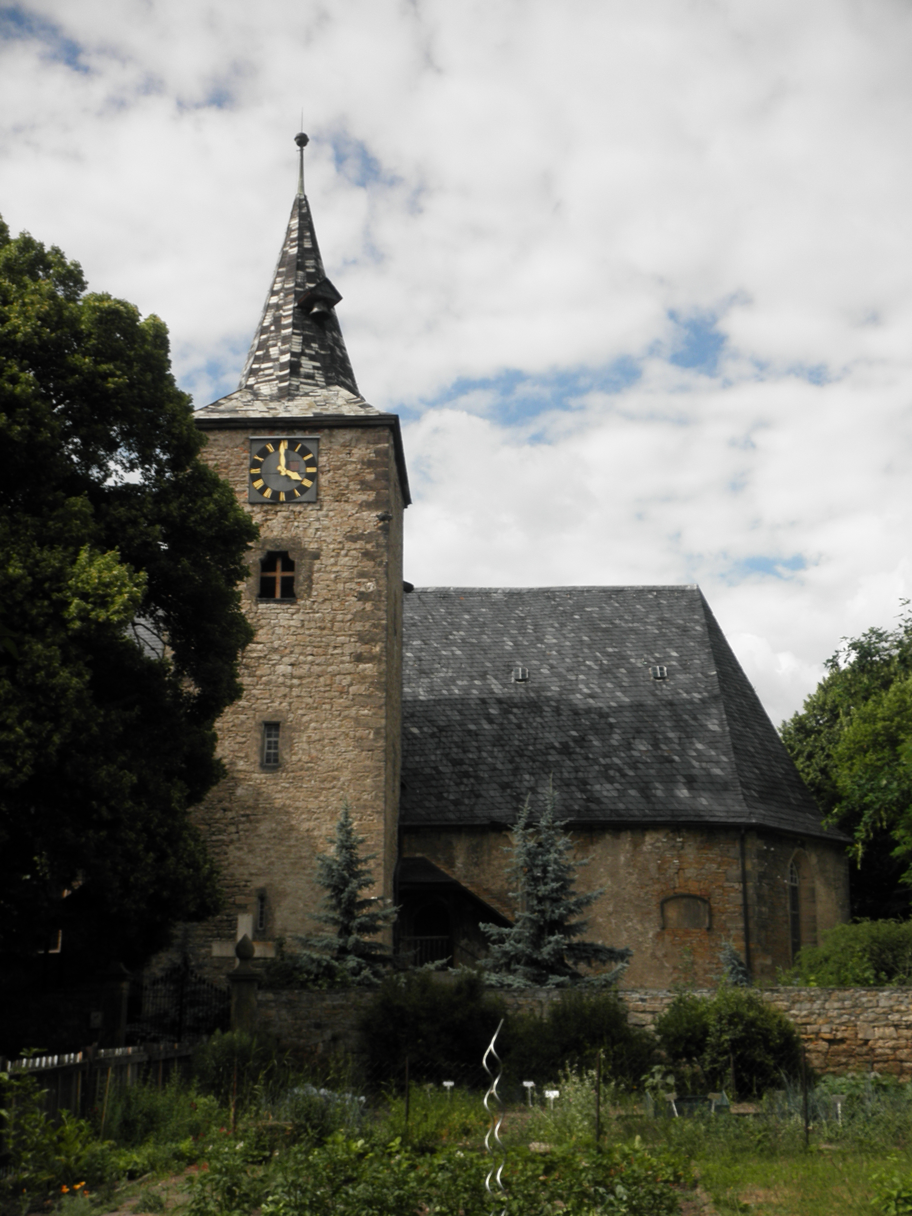 Church in Udestedt (Thuringia)